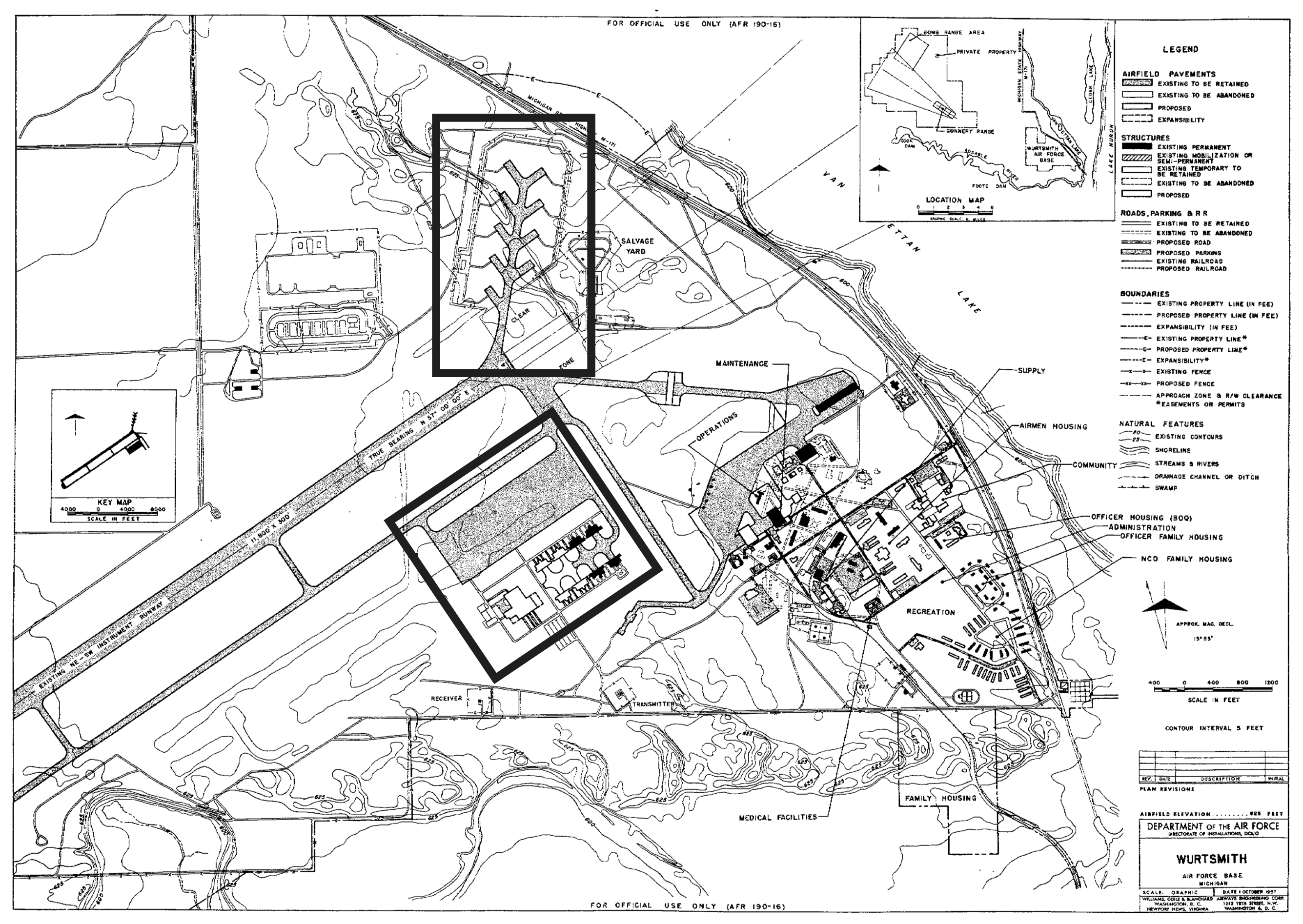 SAC Christmas tree alert apron, background center. Proto-alert stubbed apron and tanker pen, center. Wurtsmith Air Force Base.